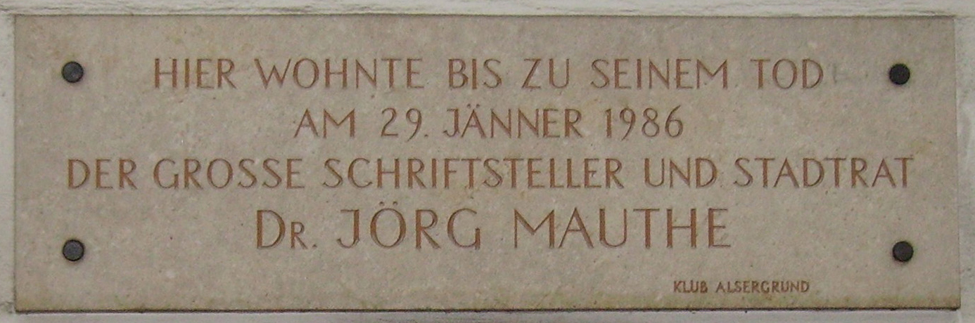 Jörg Mauthe (1924–1986), memorial plaque at his last residence, Vienna, Günthergasse 1